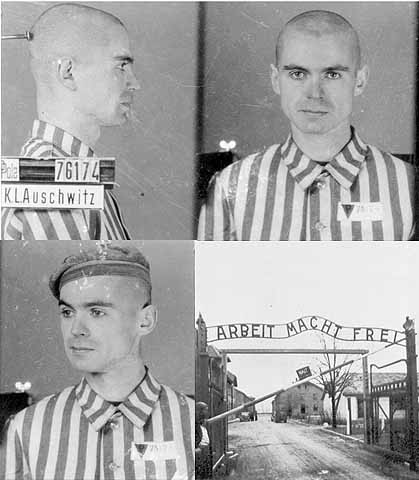 Witold Zacharewicz photographed at Auschwitz concentration camp, prisoner Nr. 76174